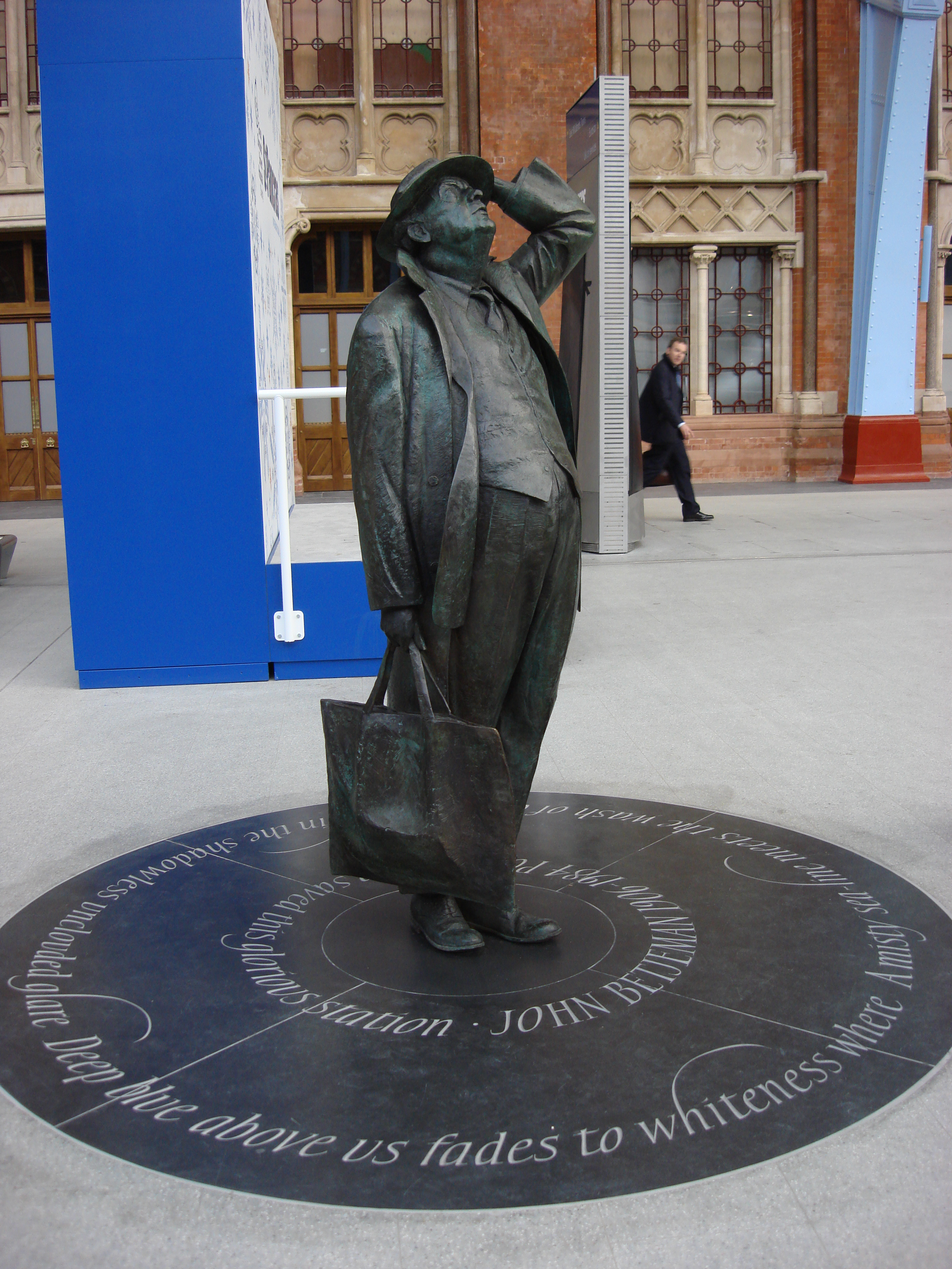 Sir John Betjeman statue in St Pancras railway station, London, UK, by Martin Jennings. The statue stands in a disc of Cumbrian slate, inscribed in two rings. The inner ring is Betjeman's name and dates and the words “Who saved this glorious station”. The outer ring contains the sixth stanza from the poem Cornish Cliffs: “And in the shadowless unclouded glare / Deep blue above us fades to whiteness where / A misty sea-line meets the wash of air.” See A fitting tribute to Betjeman for further details.